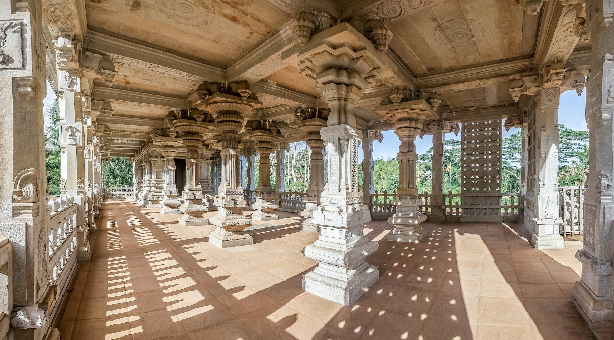 Pillared Mandapam inside Iraivan Temple at Kauai's Hindu Monastery.